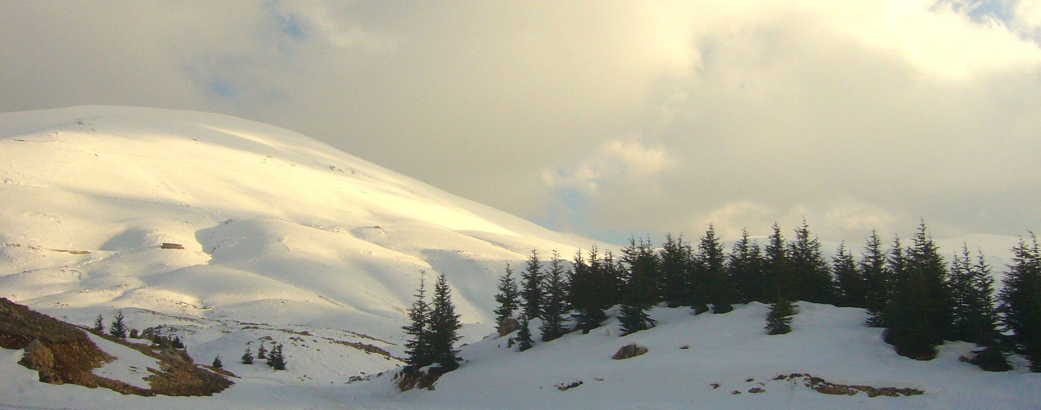 "Kornet Al Sawda Mountain", Lebanon; Photography by Wissam Shekhani on November 2011